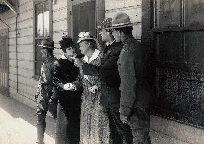 Digital ID: TH-27924 Source: Billy Rose Theatre Collection photograph file / Productions / The Lamb (cinema 1915) ( Repository: The New York Public Library. The New York Public Library for the Performing Arts. Billy Rose Theatre Division. See more information about and others at Persistent URL: Rights Info: No known copyright restrictions; may be subject to third party rights (for more information